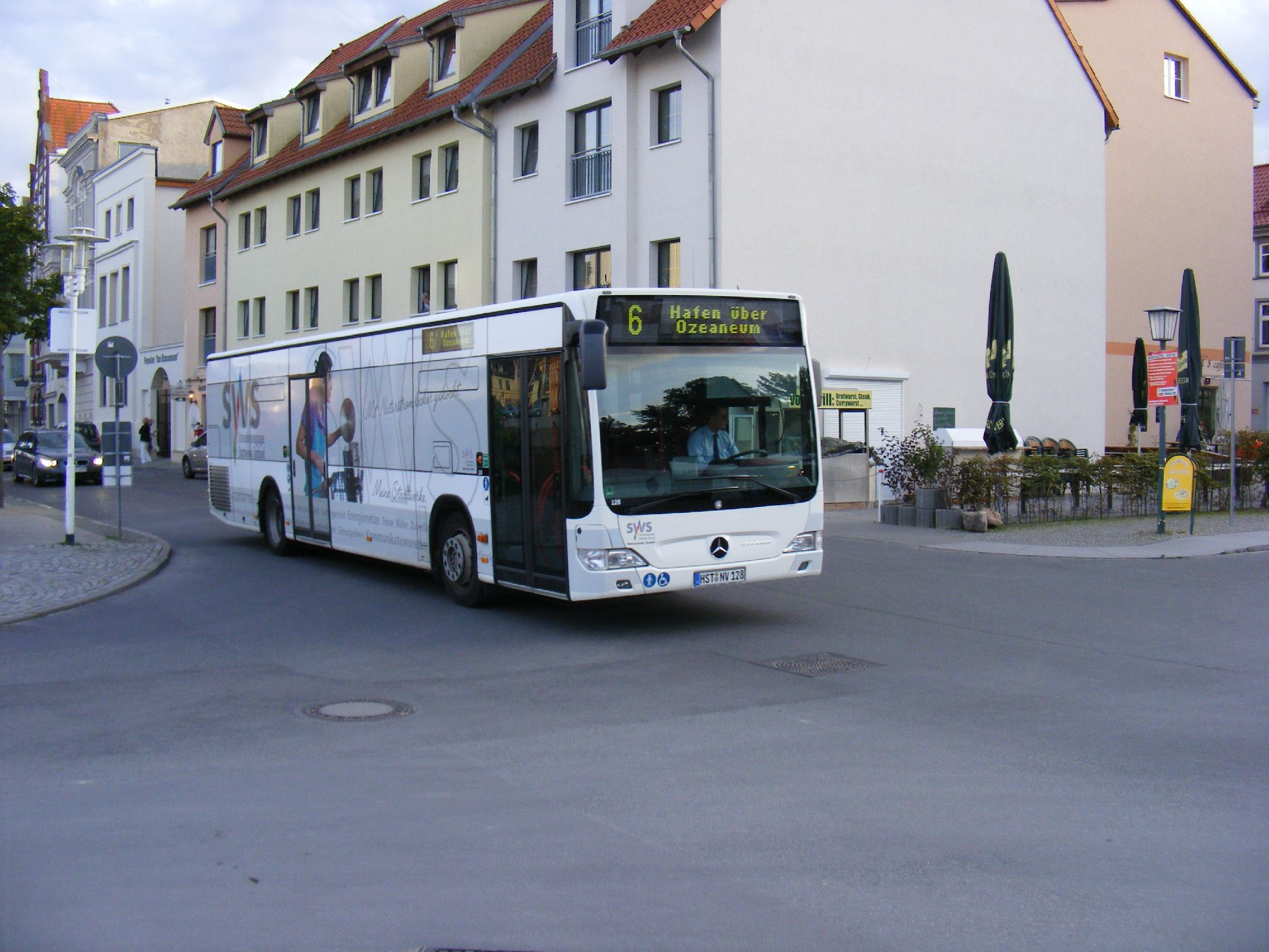 SMS fleet no 128 nears the harbour terminus of route 6 Langendorf - Hafen, almost opposite the new Ozeaneum museum of the oceans. Advertising seems to cover the entire vehicle, windows and doors. Probably the back too.